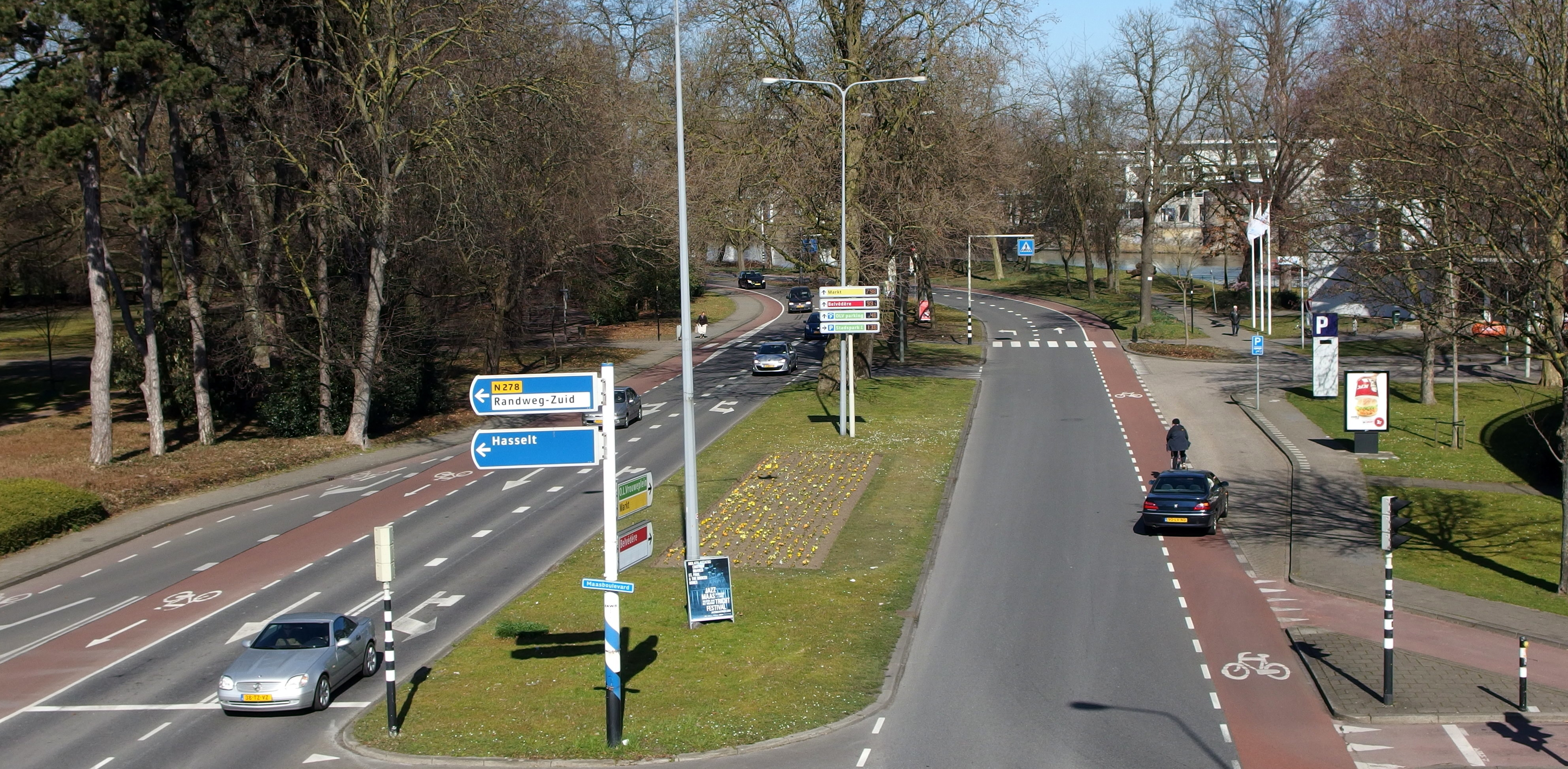 2015-03-12 in Maastricht; Maasboulevard seen from Kennedybrug.